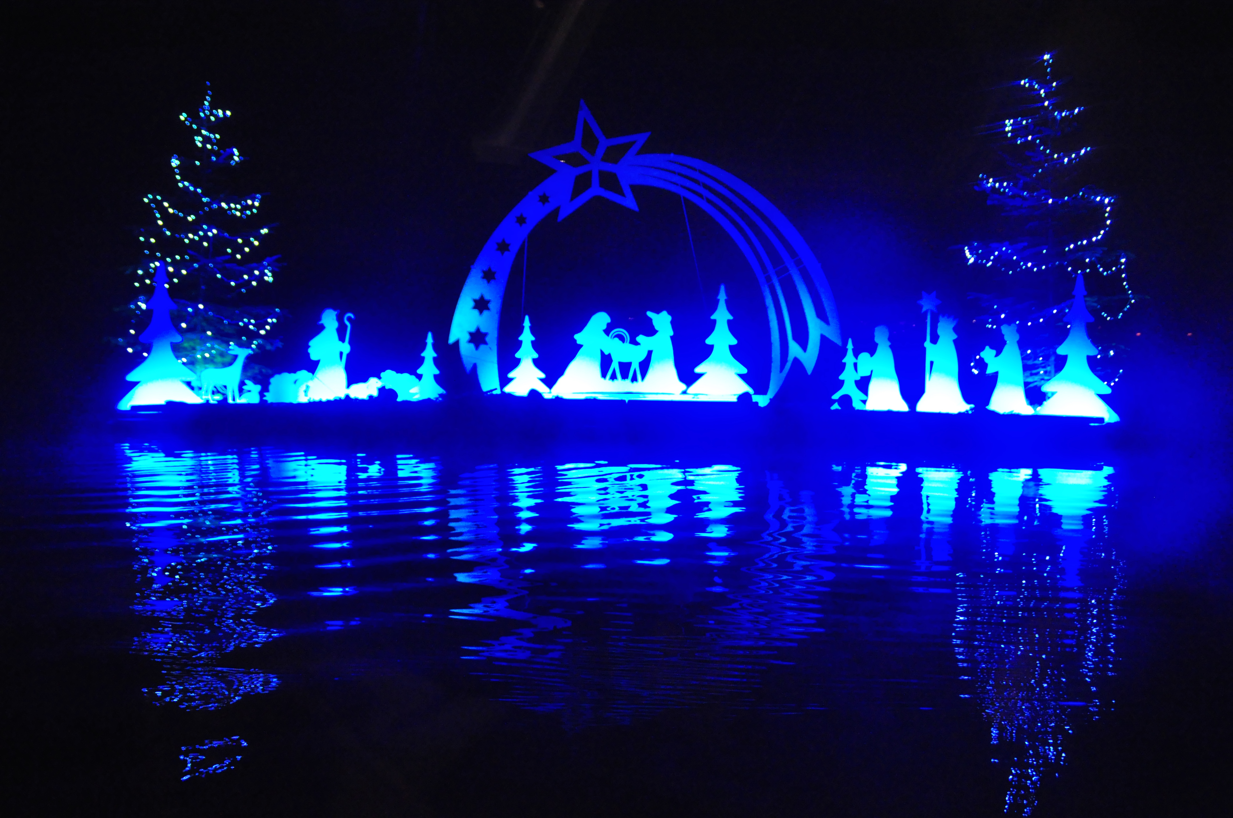 Floating nativity scene on Lake Woerth`s water surface of the bay in Velden am Wörthersee, district Villach-Land, Carinthia, Austria